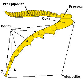 Schetch of the ventral appendages of a trilobite. Text in Italian.